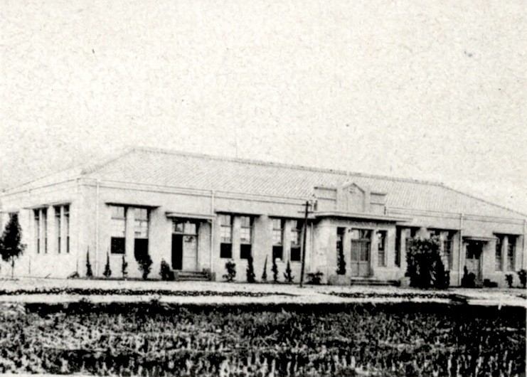 名間庄役場